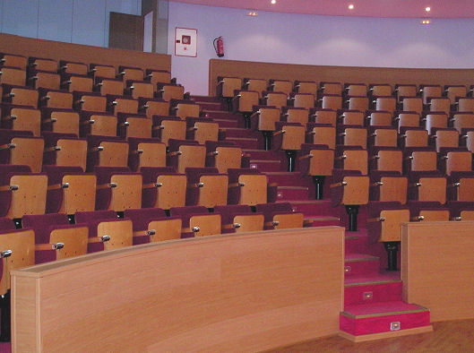 test shot I took of empty seats in a college lecture hall. Joseph Reinckens